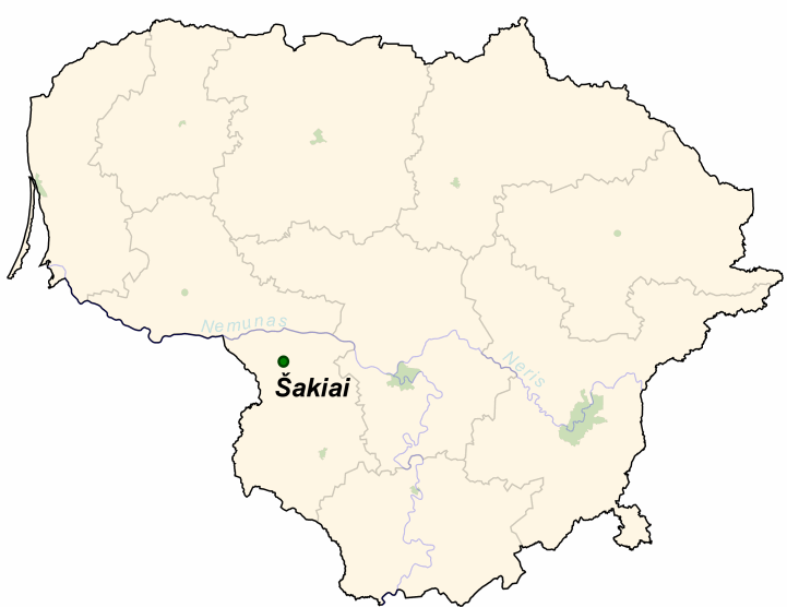 Šakiai on the map of Lithuania